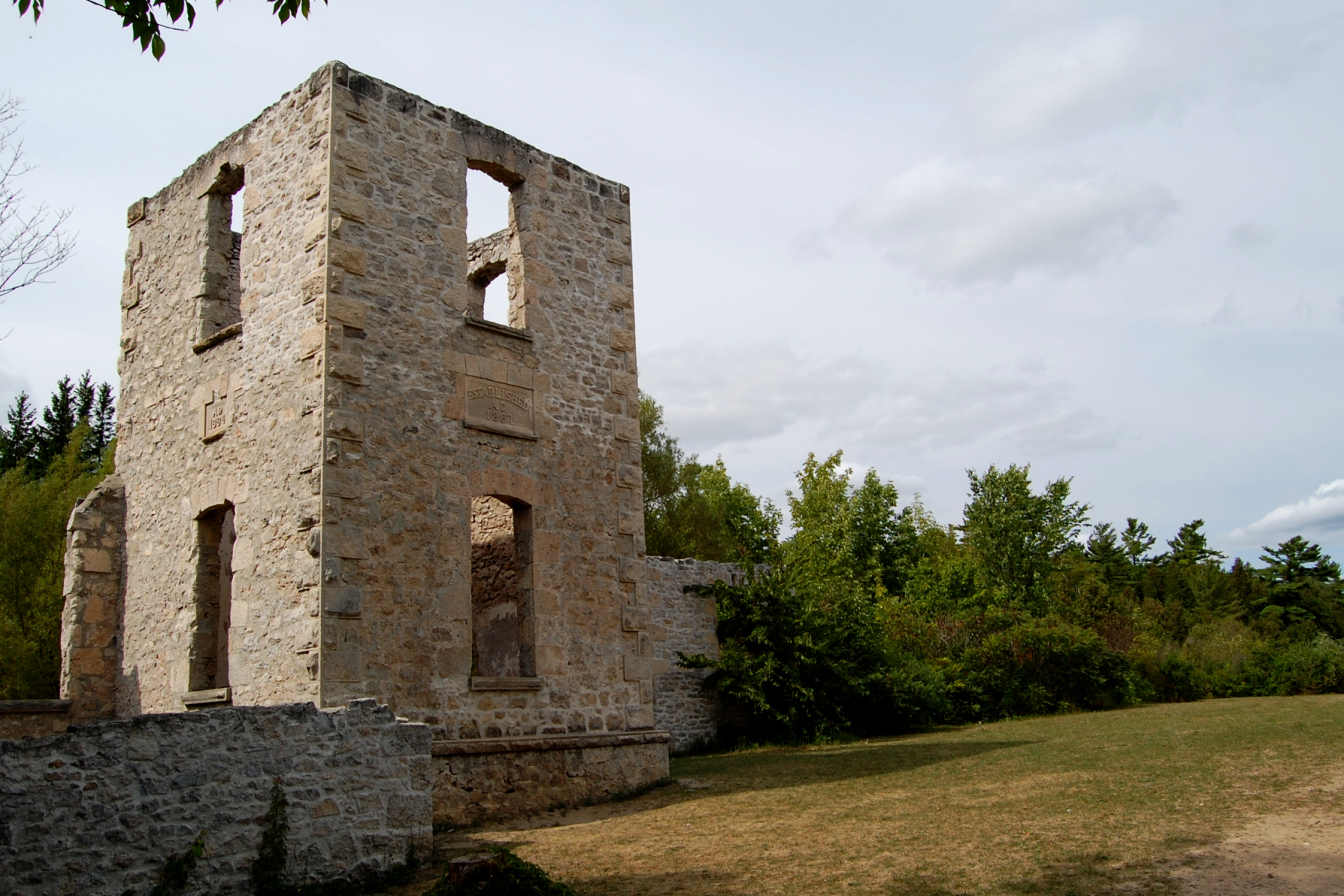 Ruins of an old mill. Shot at Rockwood Conservation Area.